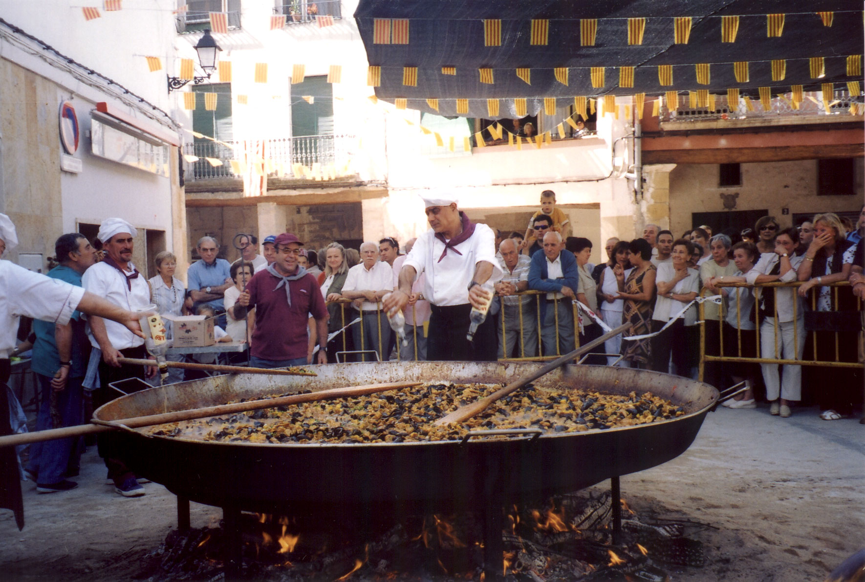 The photo is of a giant seafood Paella cooked on the Catalonian National Day ("Paella Day") 2003 in the village square of Cornudella de Montsant, Spain. The cooks are adding brandy by the bottle. The man in maroon with the blue neckchief is tending the fire. Soon after the photo was taken the entire village (several hundred people) were served paella. The author can vouch that the paella was very good!